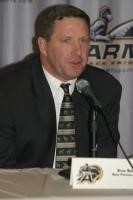 United States Military Academy (Army) head football coach Stan Brock at a 2007 press conference.